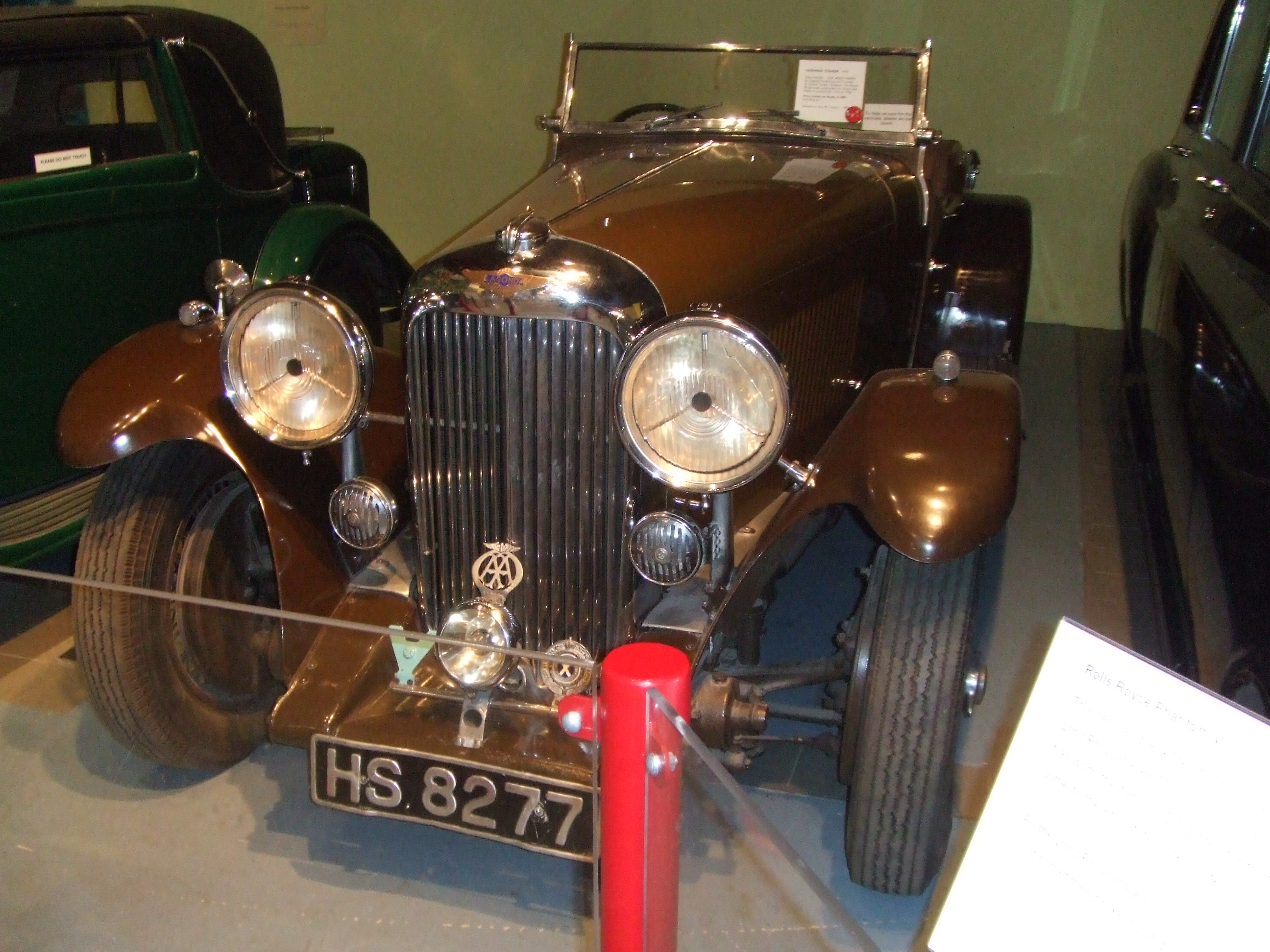 1935 Lagonda Open Tourer at the Glasgow Museum of Transport, 03/07. (DVLA) first registered 4 April 1935, 4356cc